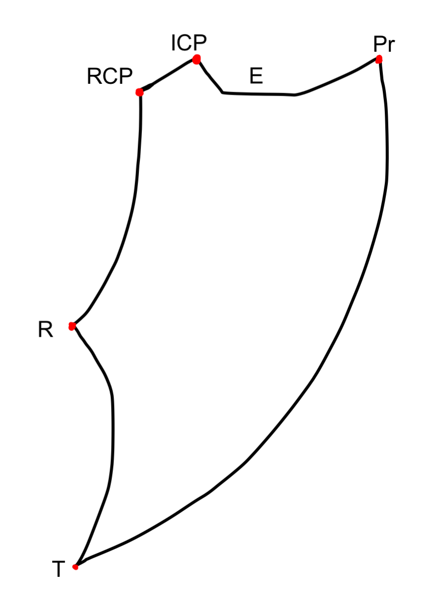 A 2D sagittal view of the movement created by the mandibular incisors